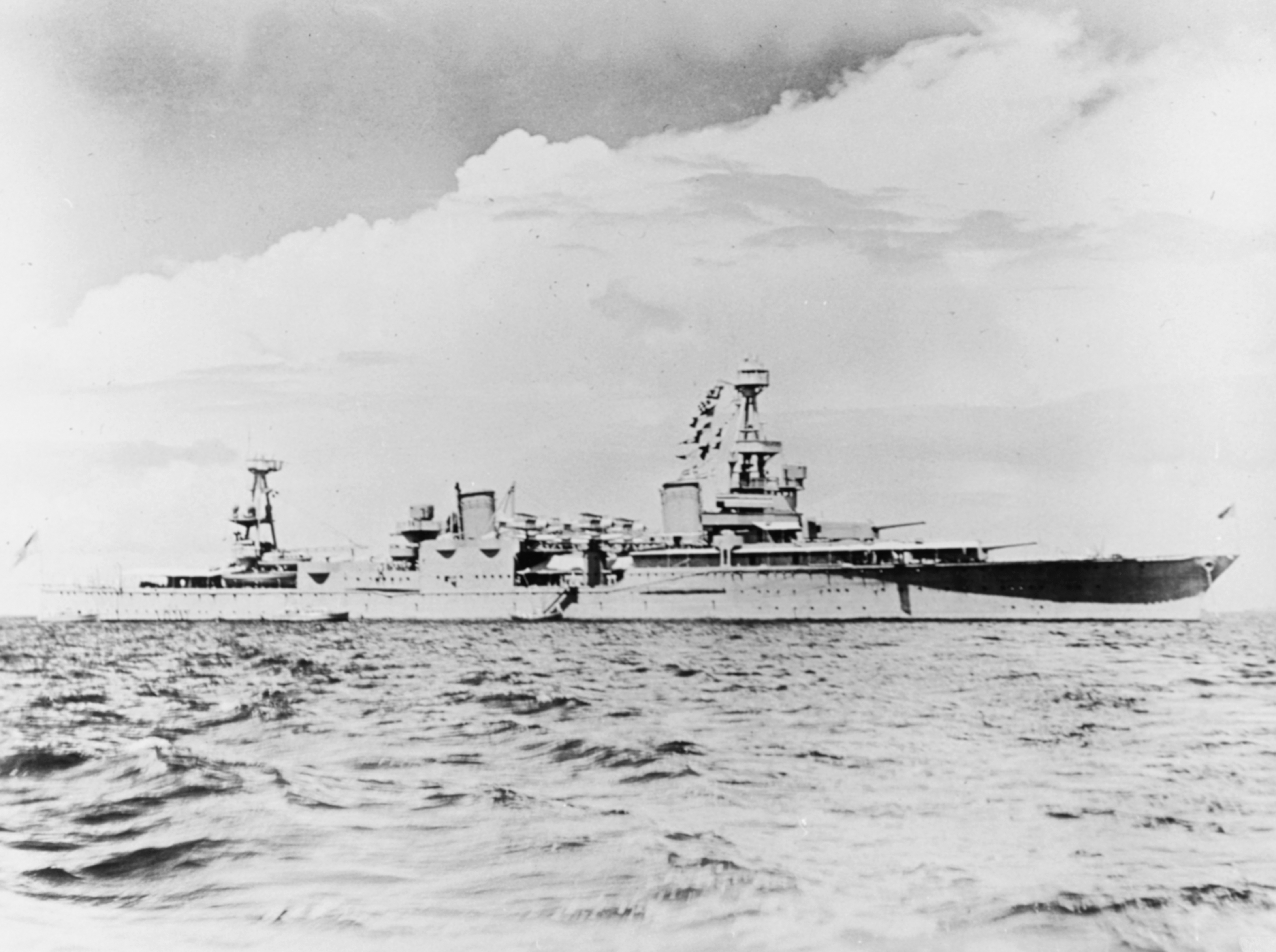 The U.S. Navy heavy cruiser USS Houston (CA-30) in Manila Bay, Philippine Islands, in 1940-1941, after her final modifications.